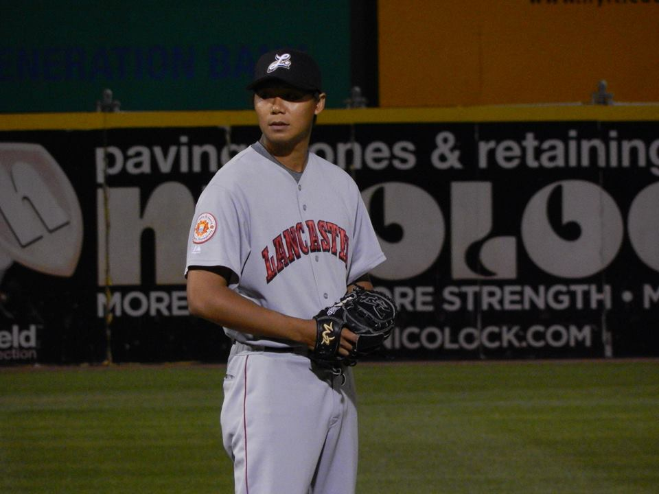 Fu Te Ni pitching for the Lancaster Barnstormers during the 2014 season.